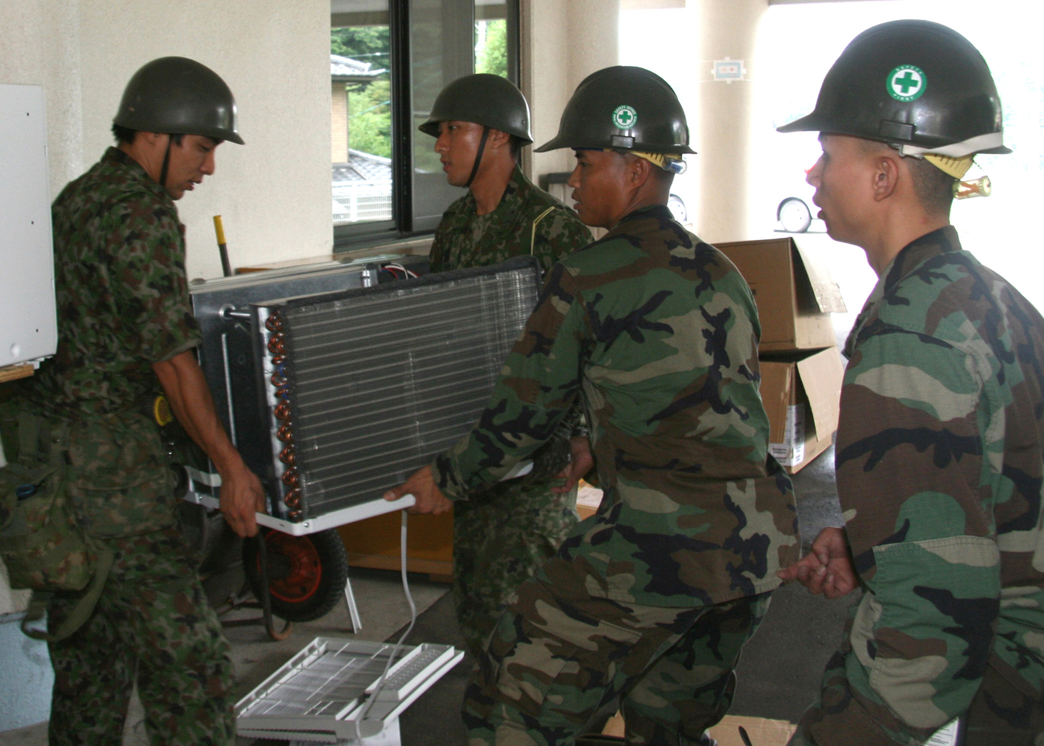 KASHIWAZAKI, Japan (July 21, 2007) - Members of the Japan Ground Self-Defense Force and U.S. Navy install two air conditioning units at the Kenno Community Center. The Sailors and 13 other Seabees from Naval Air Facility Atsugi were dispatched to help install air conditioning units at various community centers in the city that are acting as evacuation centers. The center is a temporary home to several elderly residents. U.S. Navy photo by Mr. Pat Halton (RELEASED)